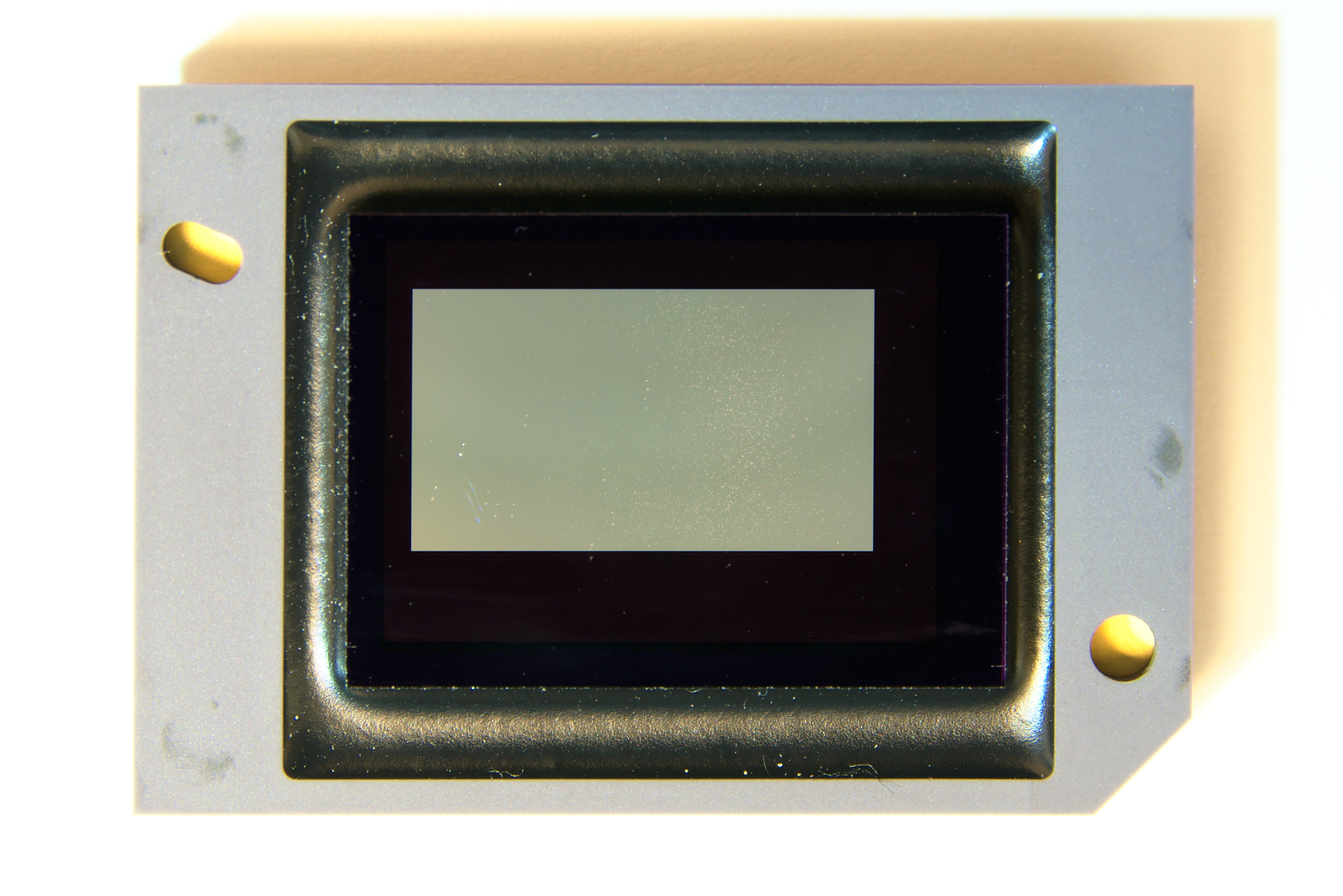 DMD chip from a videoprojector. View of the "white dots" among the micromirrors, on the right side. (About Height: 2.2 cm (0.8 in); Width: 3.2 cm (1.2 in) dimensions QS:P2048,2.2U174728;P2049,3.2U174728)